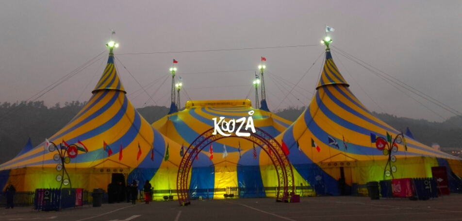 Cirque du Soleil's Grand Chapiteau in Santiago, Chile. July 2016